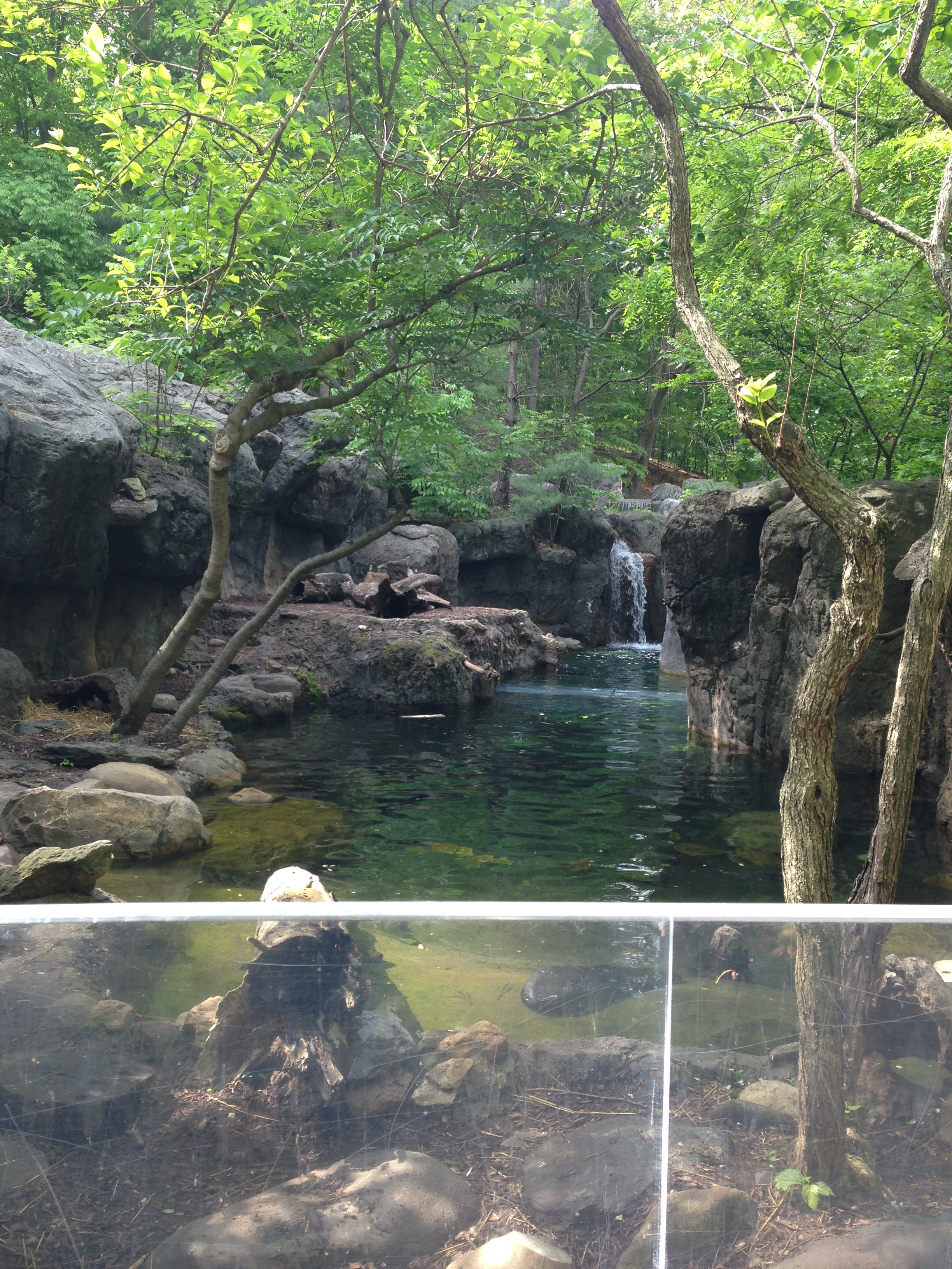 The River Otter habitat in the Maryland Wilderness Exhibit area at the Maryland Zoo in Baltimore.